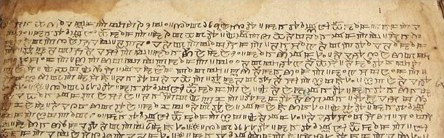 Meetei Mayek script